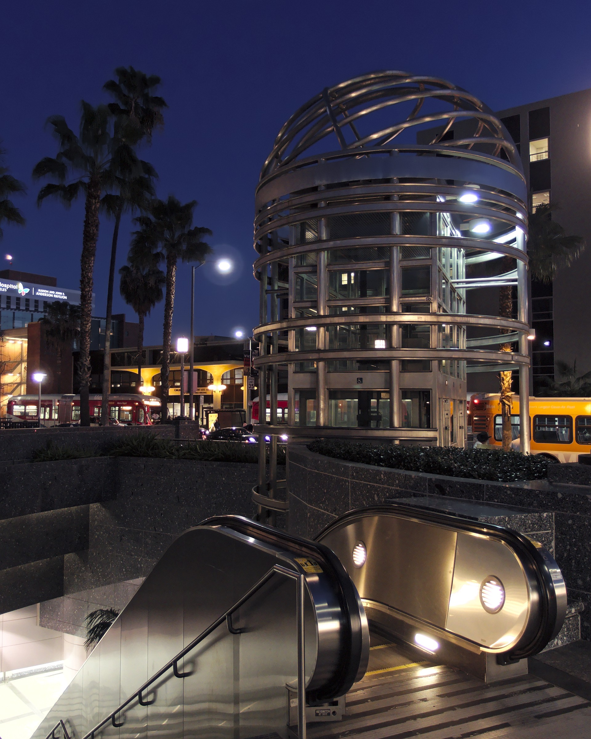 Exterior of the Vermont/Sunset Metro station at night.